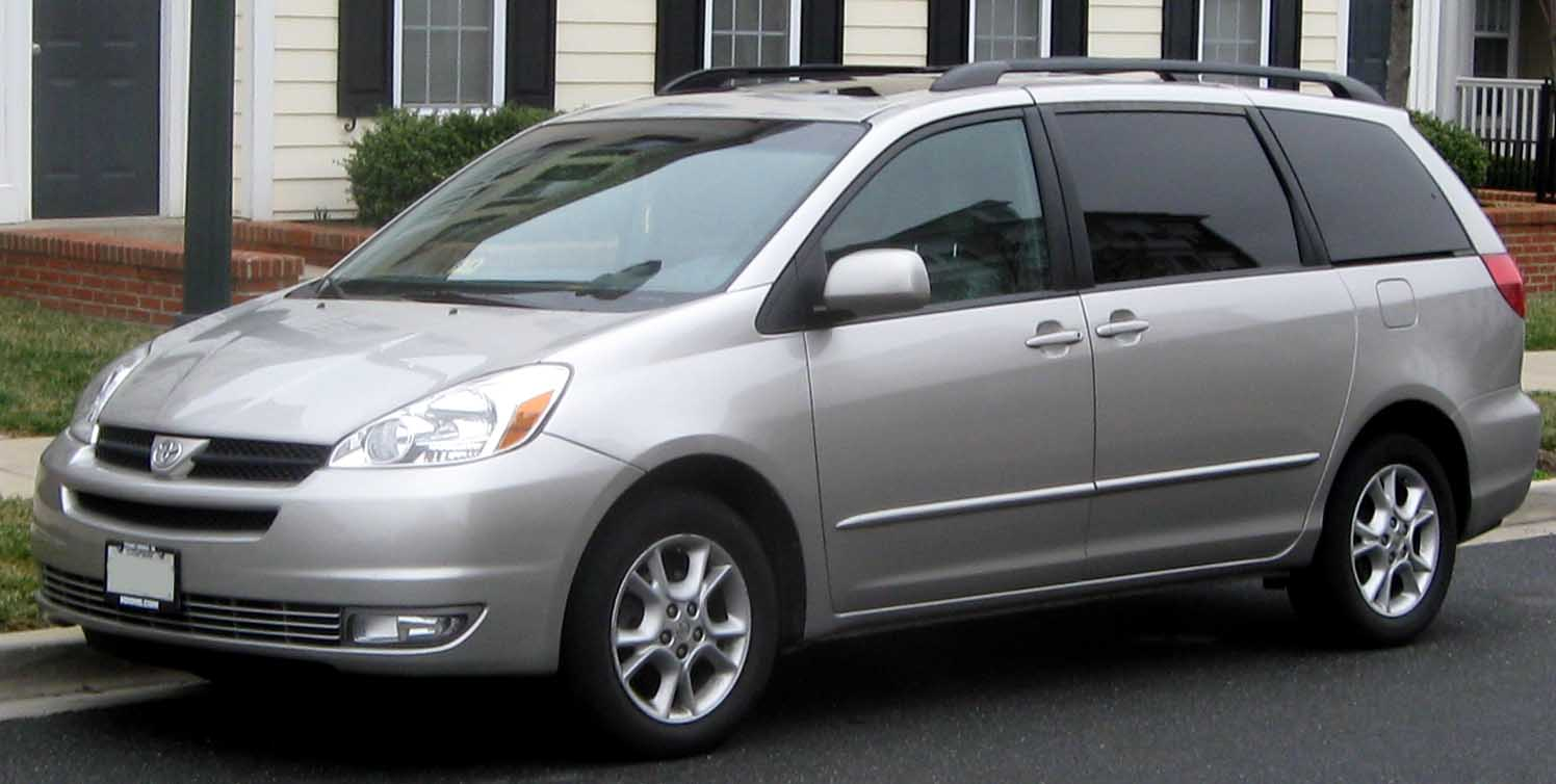 2004-2006 Toyota Sienna photographed in Rockville, Maryland, USA.